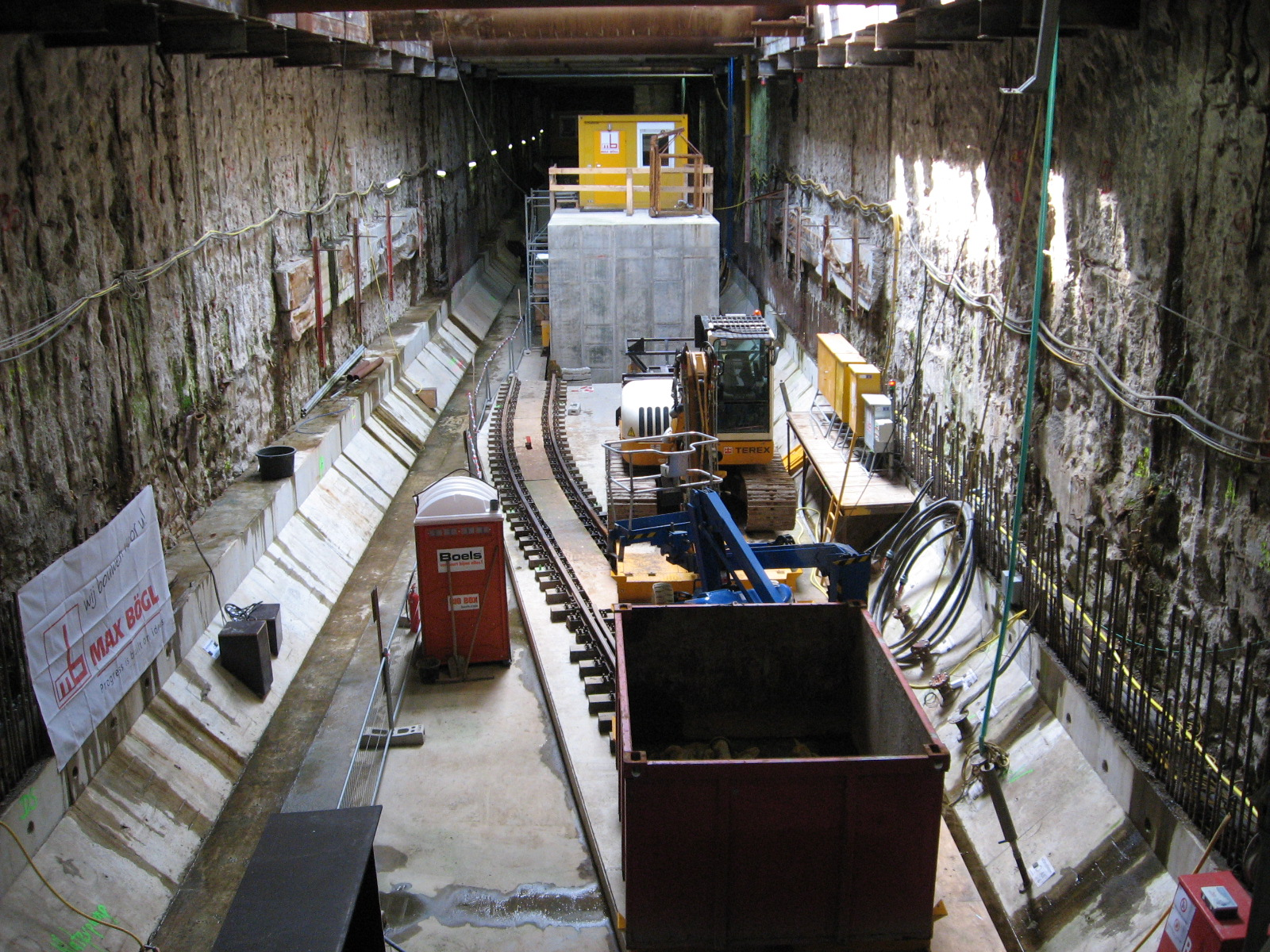 Station Ceintuurbaan on the North-south metroline in Amsterdam, The Netherlands. June 6th, 2009